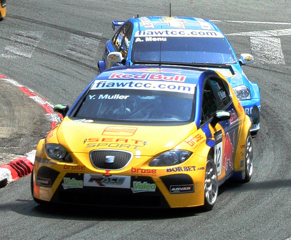 World Touring Car Championship: Yvan Muller driving SEAT Léon at the 2007 Pau